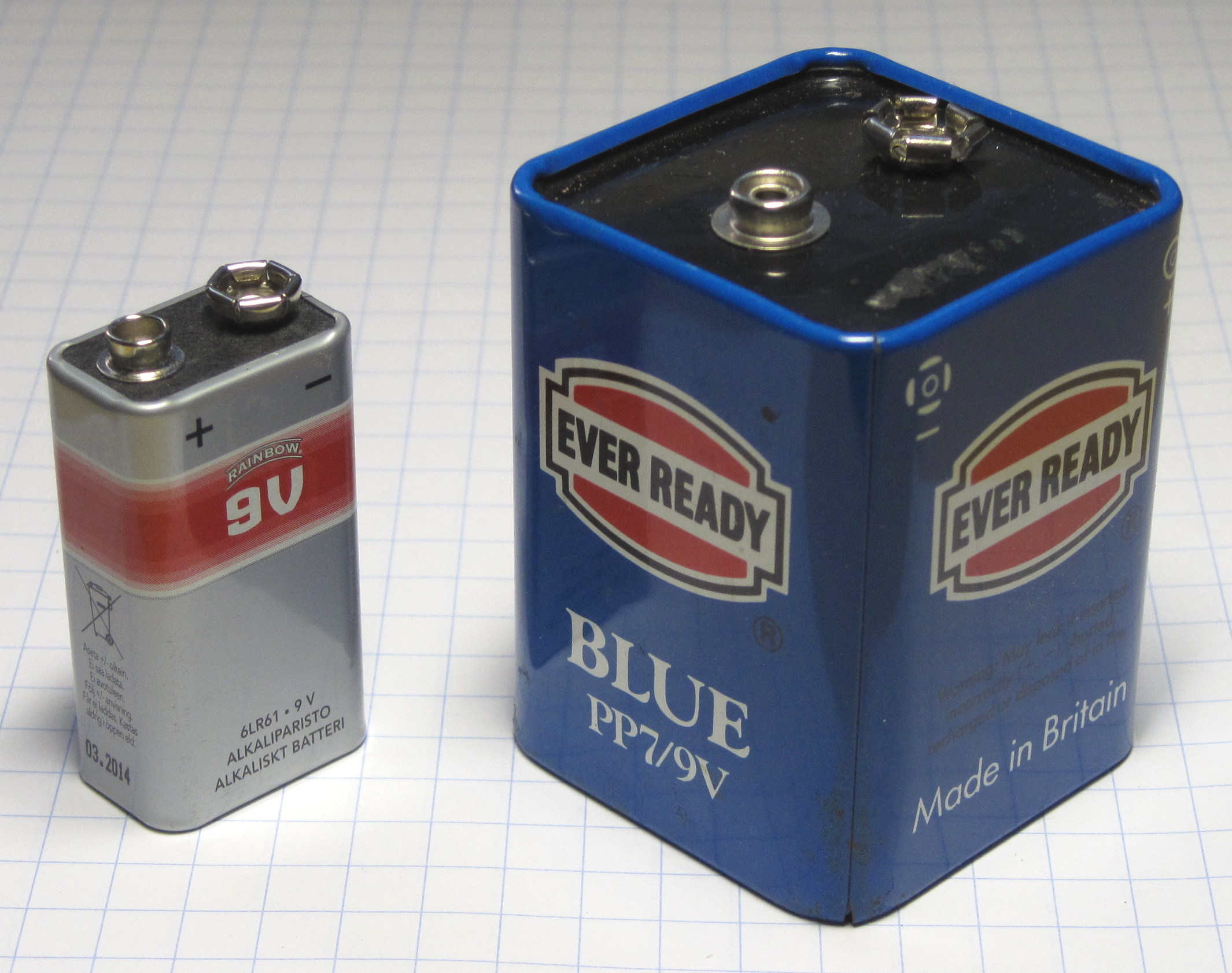 A side by side comparison of a PP7 battery and the more common PP3 type battery. This battery type was 9 volts and had 2 snap connectors. Centre distance between terminals is max 19.2 mm. H 63 mm L 46 mm W 46 mm This battery type is also known by the following designations: 266 NEDA 1605 6135-99-914-1778 (NSN) IEC 6F90